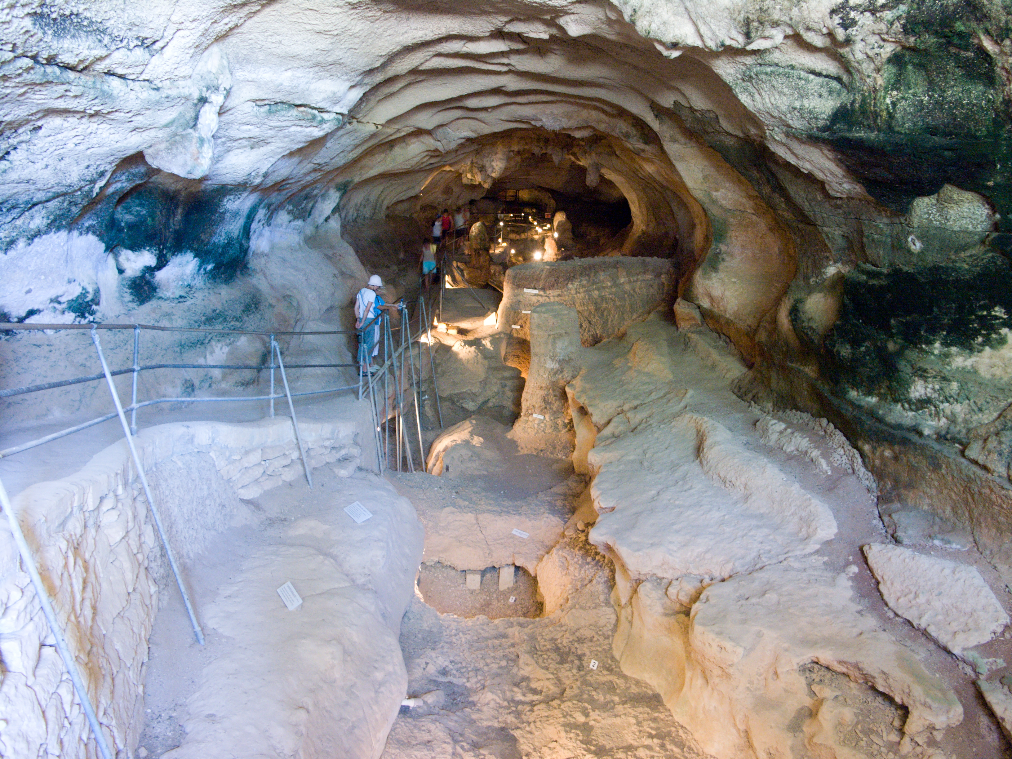 Grotte de Għar Dalam à Malte This media is about Maltese cultural property with inventory number 29.